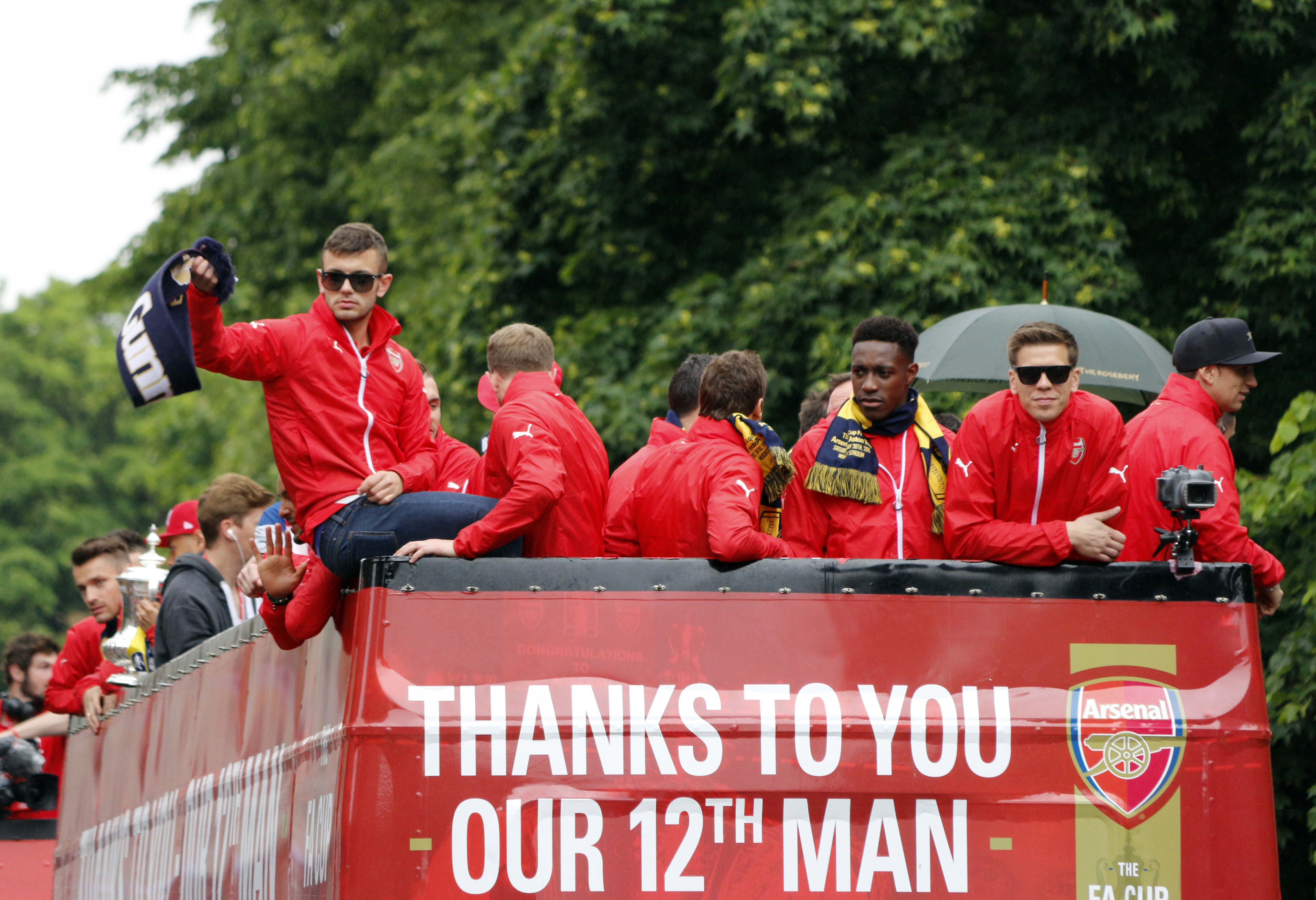 Arsenal FA Cup Winners Parade, 31st May 2015, Islington, London. Danny Welbeck Jack Wilshere Kieran Gibbs Mathieu Flamini Wojciech Szczęsny